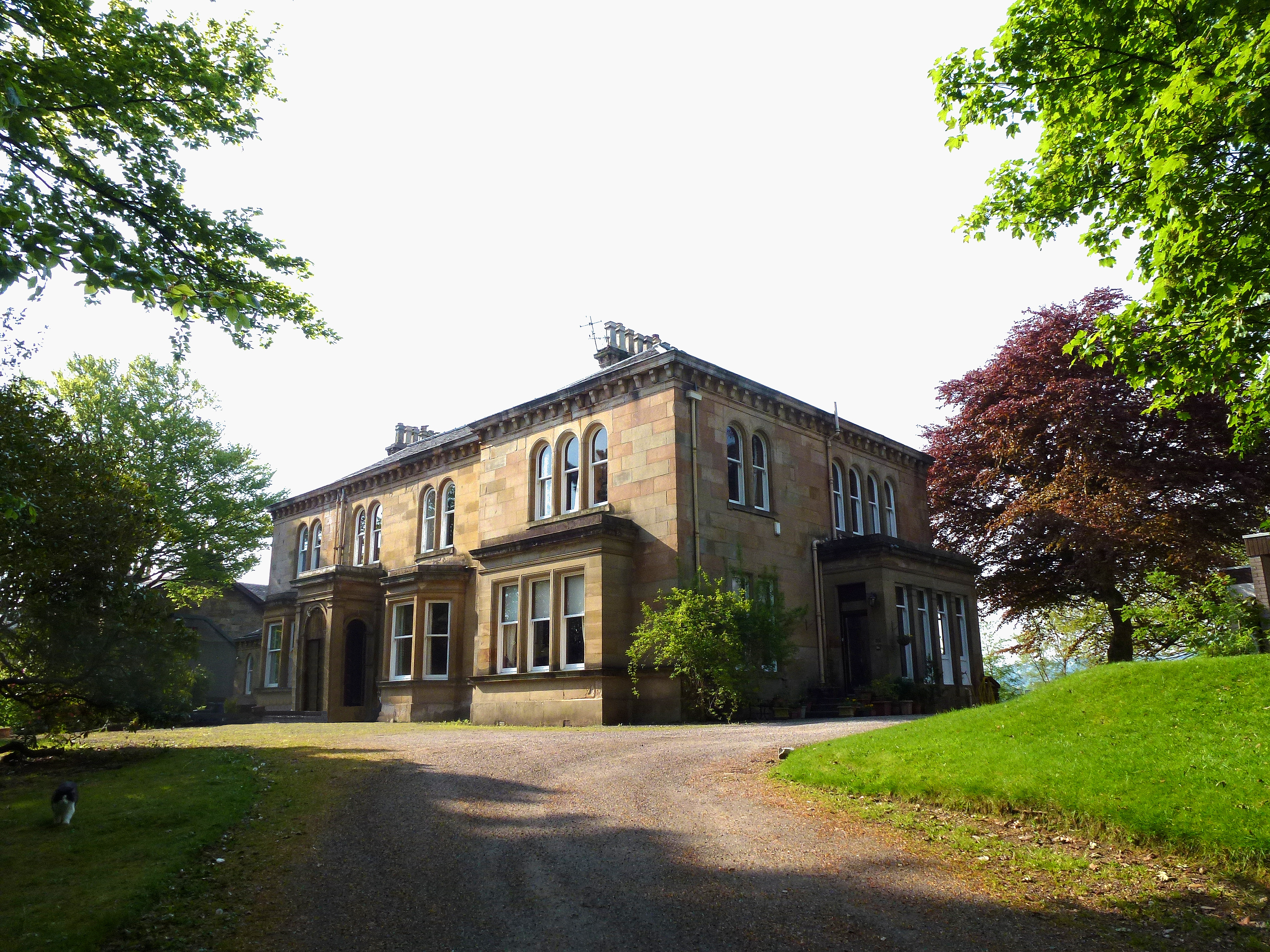 Warriston, 16 Main Road, Castlehead, Paisley